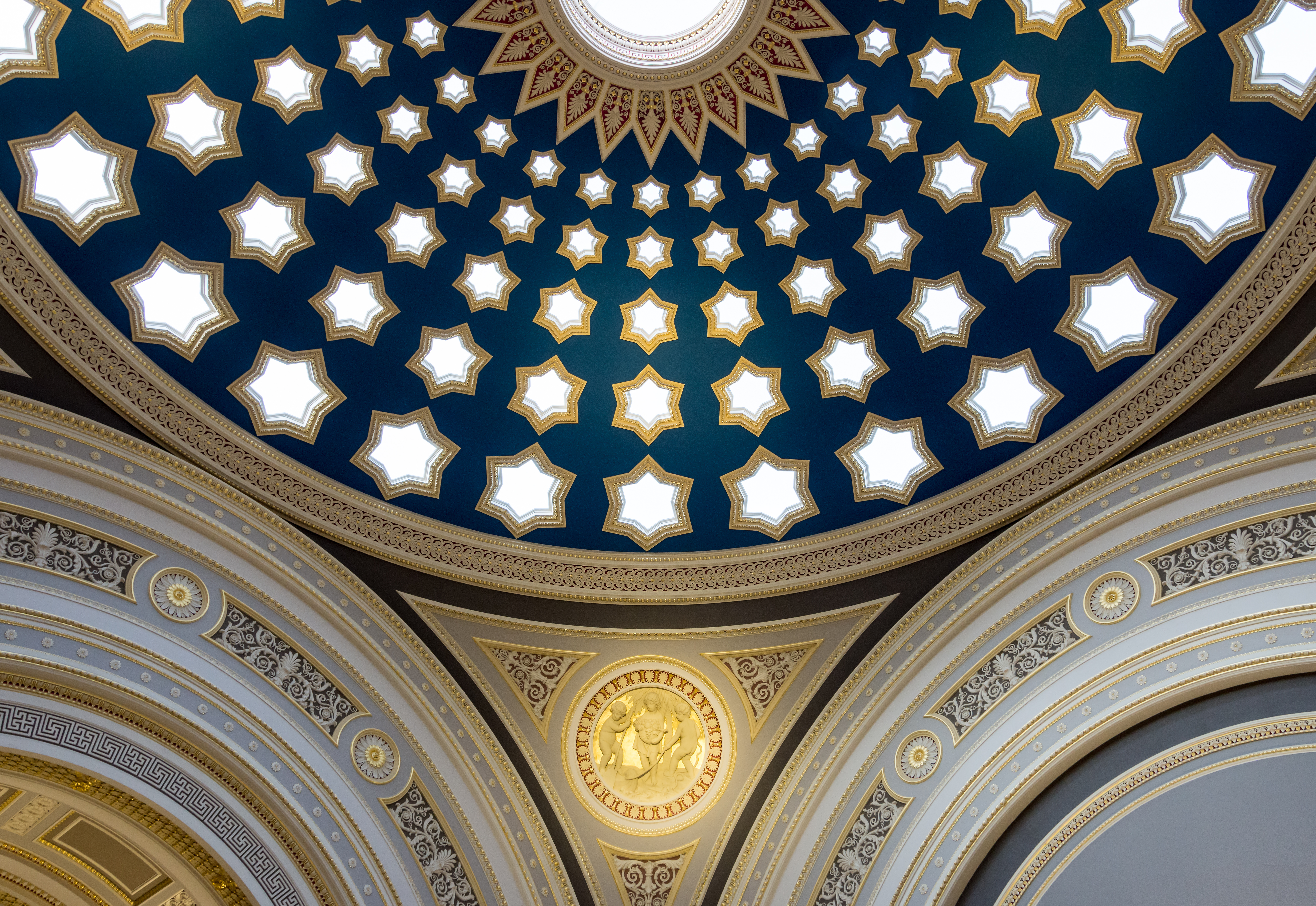 Bank of Scotland building, St Andrews Square, Edinburgh